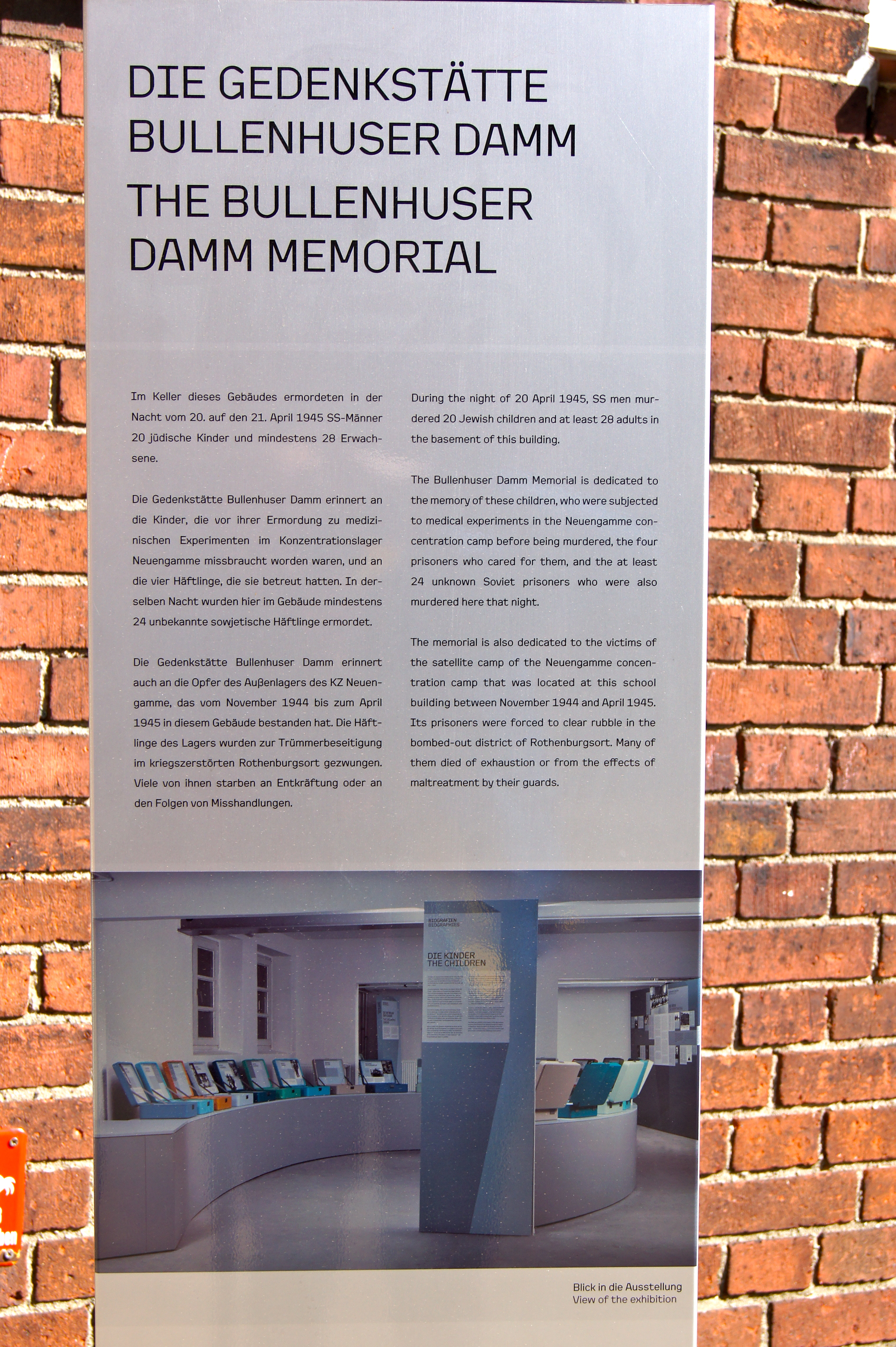 Hamburg (Rothenburgsort), Germany: Plaque at the entrance of the Bullenhuser Damm Memorial, where the nazis murdered 20 jewish children and at least 28 adults (Russians, French and Dutch)